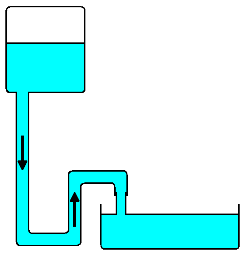 GIF demonstration of the concept of head pressure.